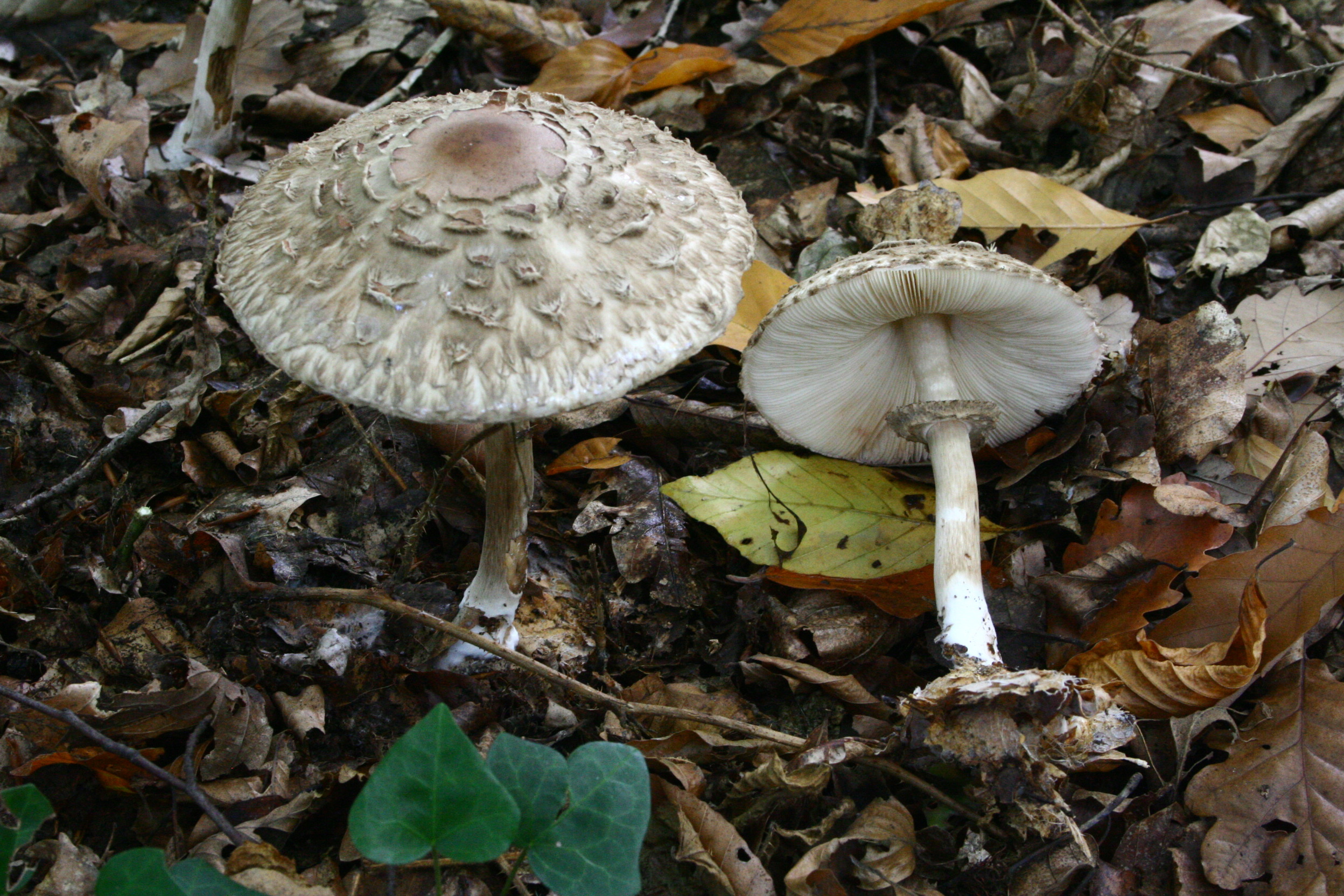 Chlorophyllum olivieri in a forest near Paris, France.